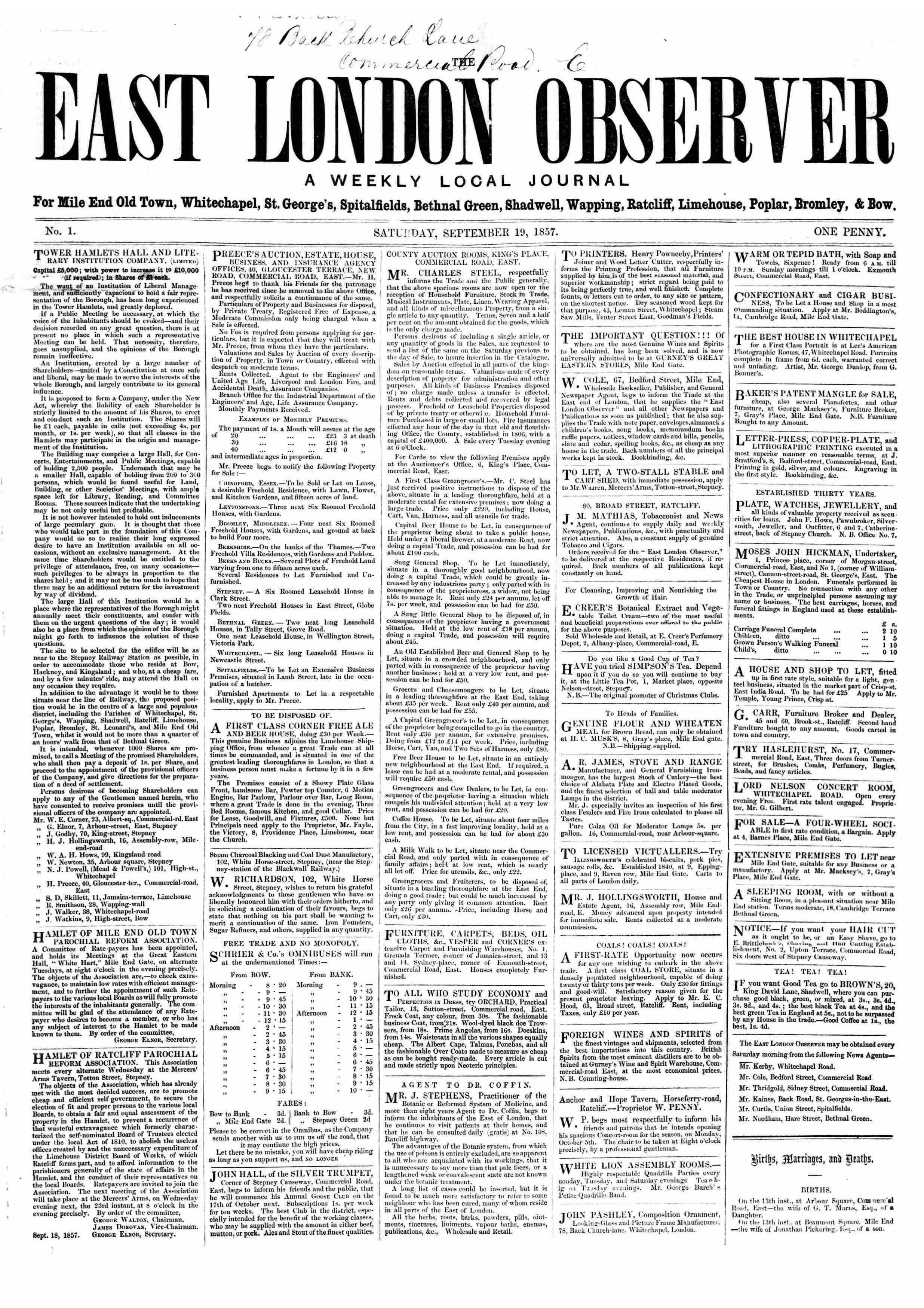 East London Observer No. 1, 19 Sept. 1857